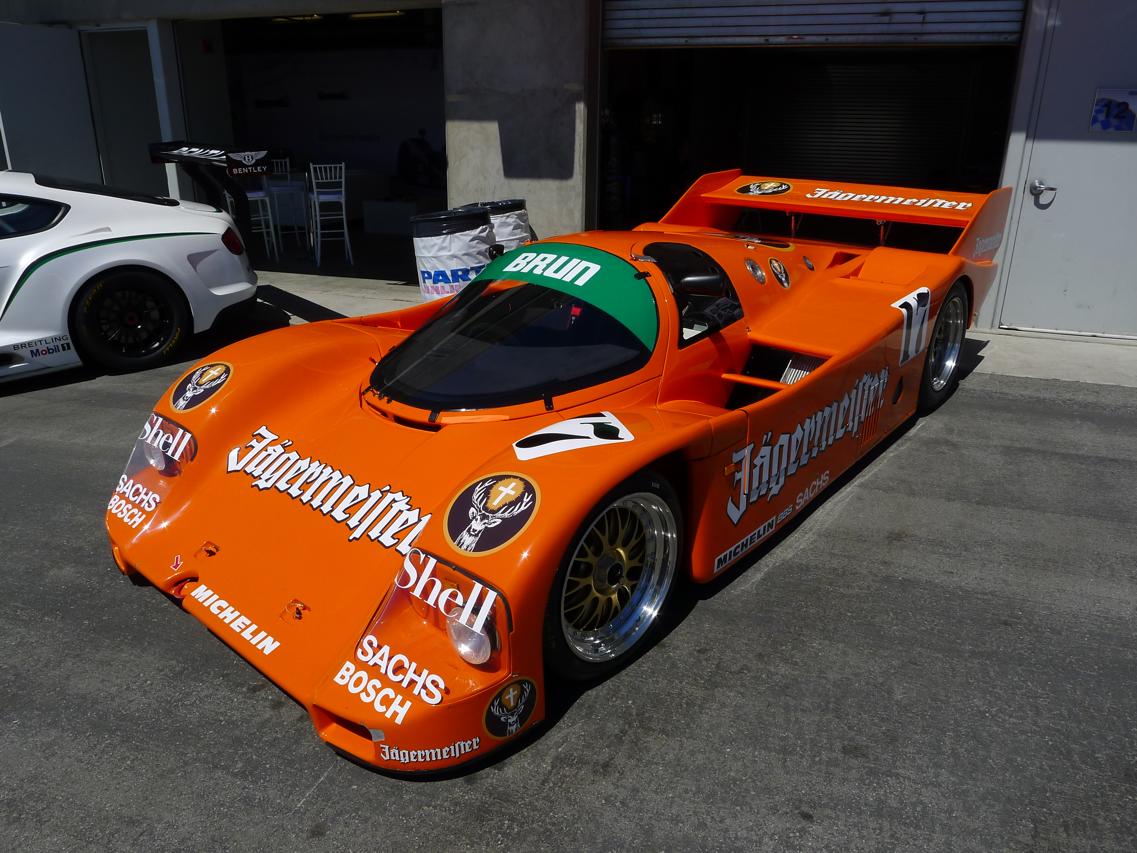 What message is this sending to our children?